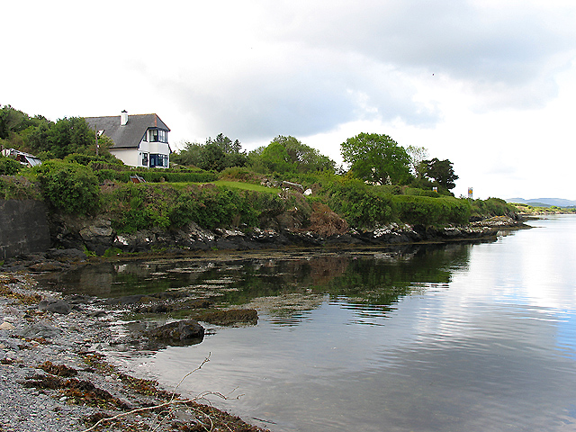 Ballylickey Bay. This view taken on a bearing of 200 degrees was taken from the beach area off the road, looking towards the N71 from Bantry.